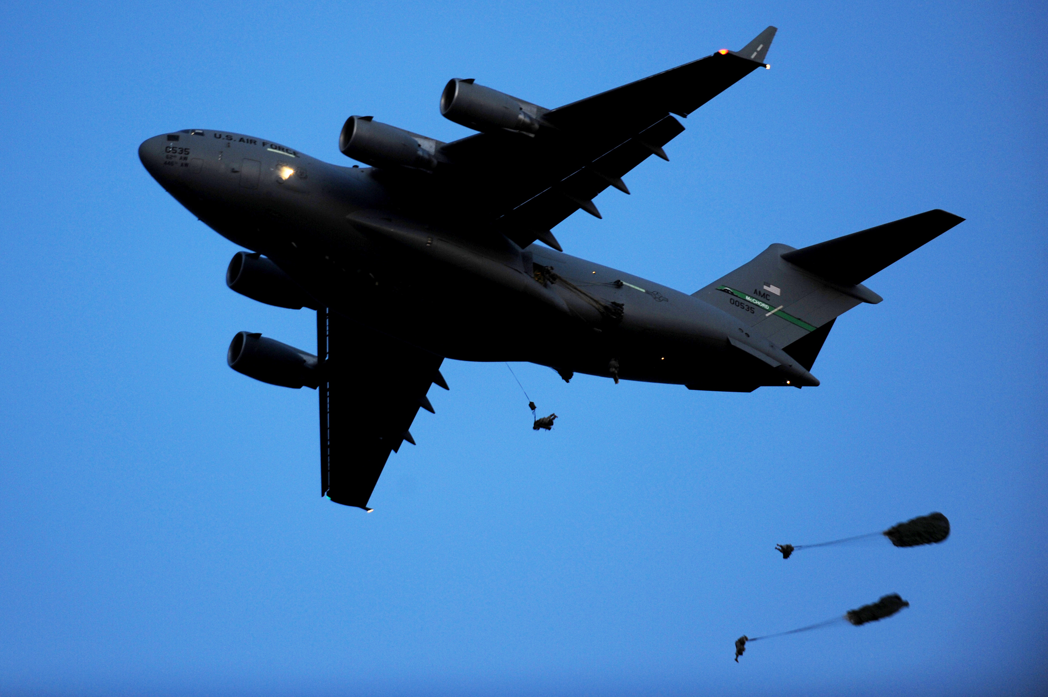 A U.S. Air Force C-17 Globemaster III drops paratroopers from the 82nd Airborne Division into a drop zone during a Joint Forcible Entry Exercise at Fort Bragg, N.C. on April 28, 2010. JFEX is a primary tool for the 82nd Airborne Division's Brigades to train for real-world contingency operations. Many times, JFEX is the last chance for these units to prepare before assuming "ready" status as the on-call "division-ready brigade."